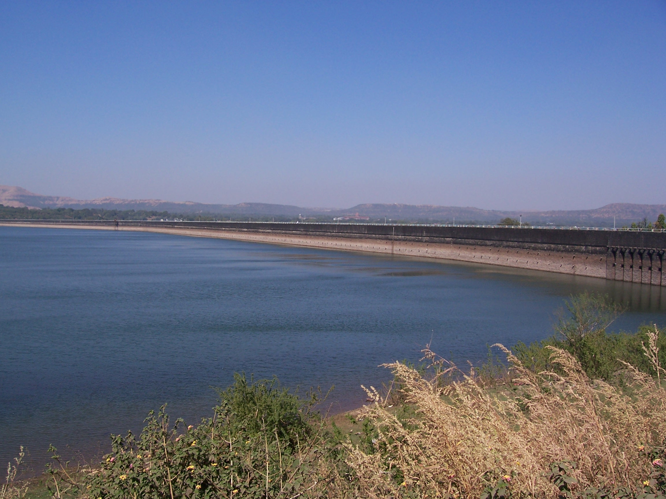 Picture of the Khadakwasla dam